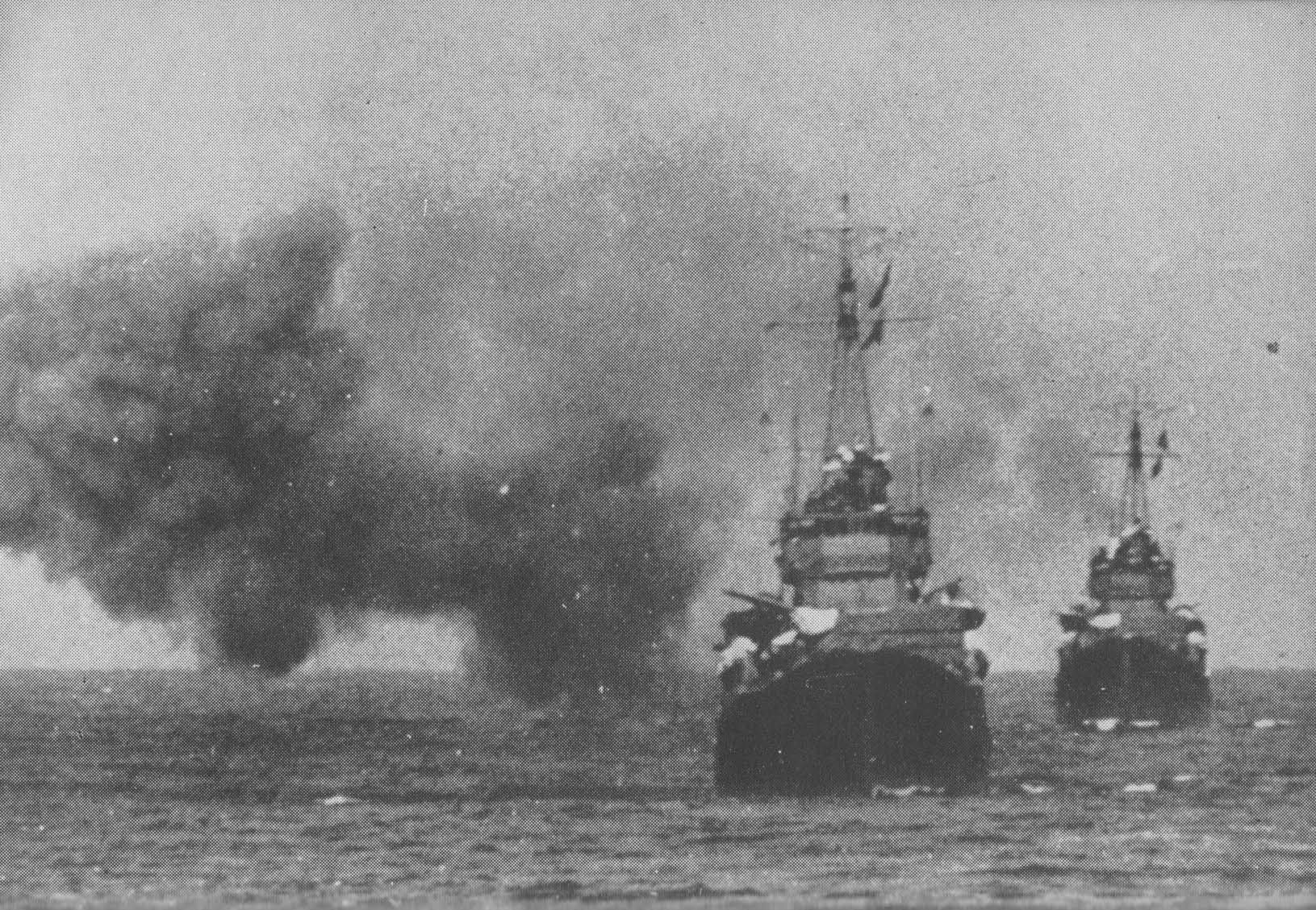 Imperial Japanese Navy destroyers Shigure and Samidare operating off the coast of Bougainville in the Solomon Islands hours prior to the Naval Battle of Vella Lavella on 6 October 1943.